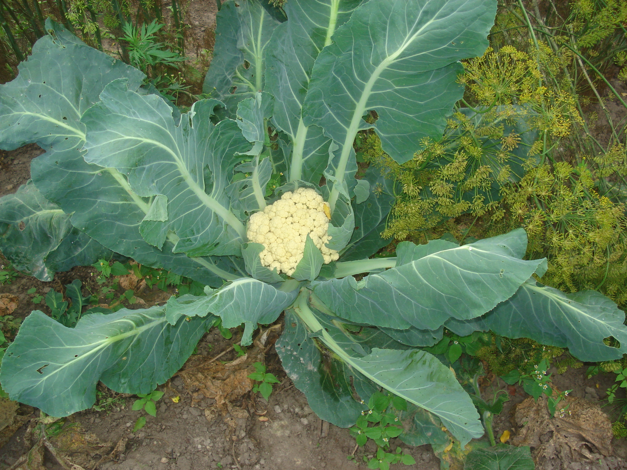 Cauliflower (Brassica oleracea var. botrytis). Found in Berzi near Bauska city, Latvia